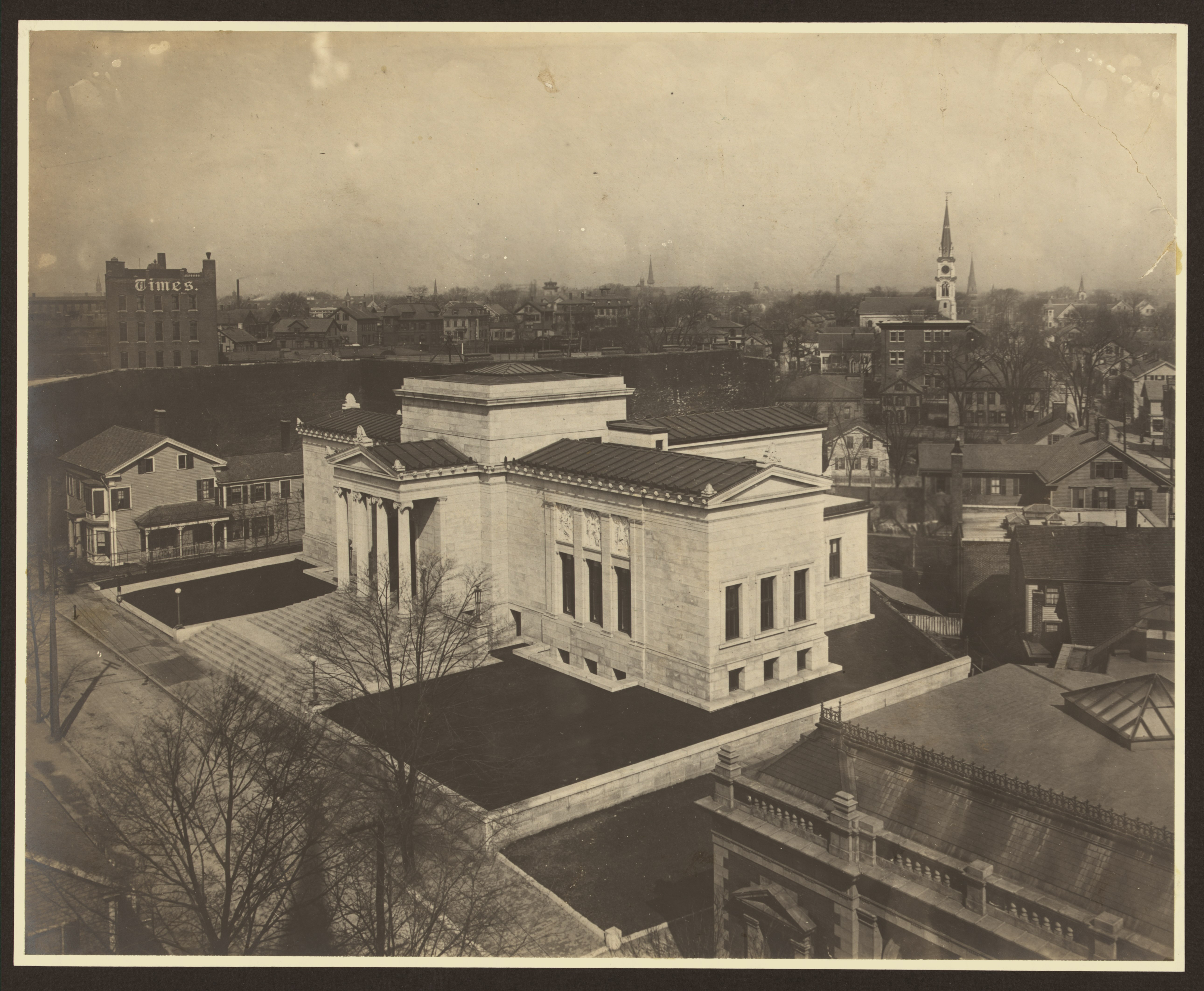 Title: Deborah Cook Sayles Public Library, Pawtucket, Rhode Island Abstract/medium: 1 photographic print.